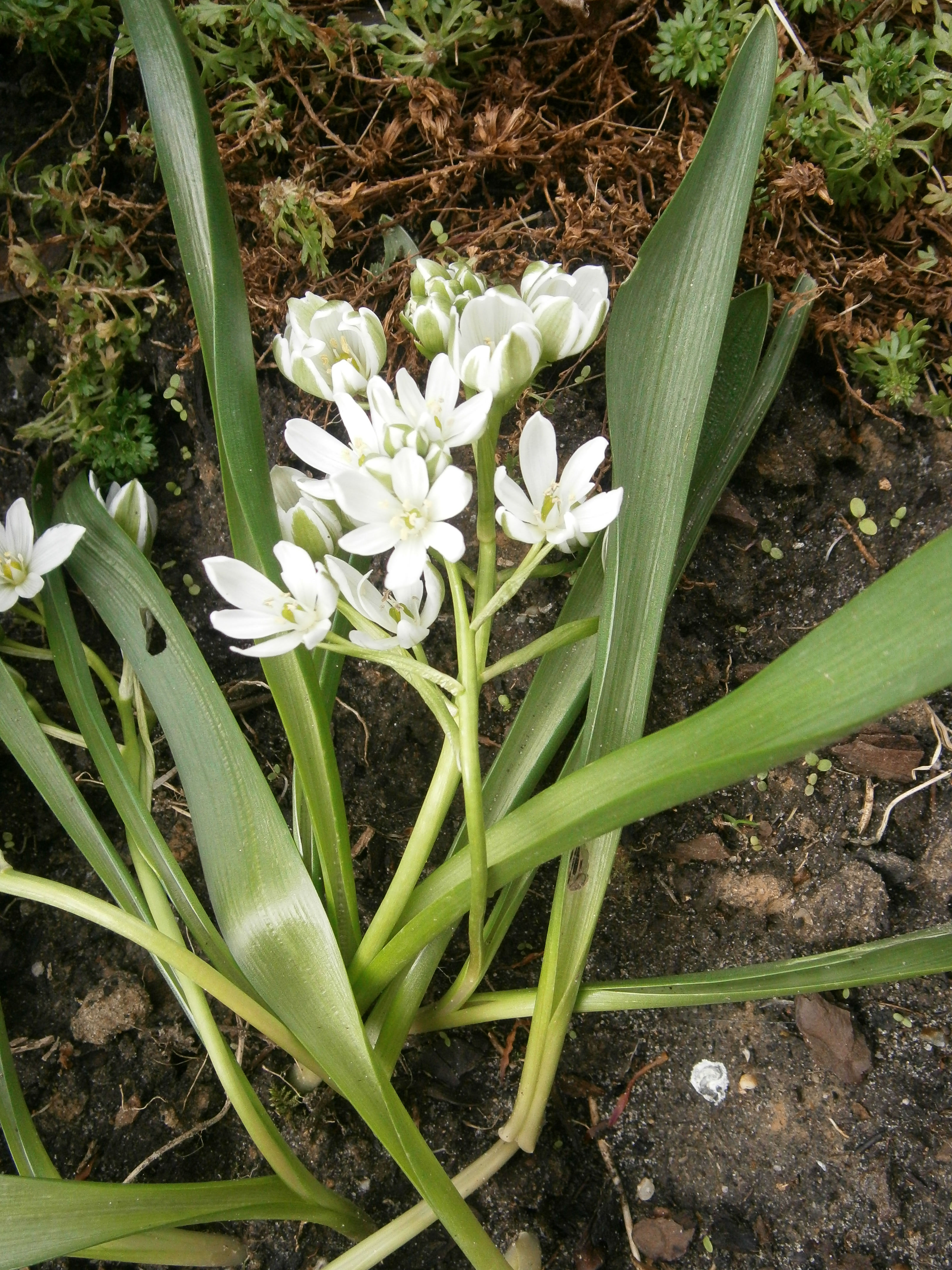 Ornithogalum balansae